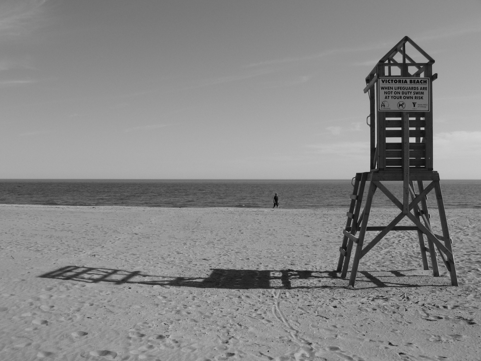 Image taken from a beach in Cobourg, Ontario, Canada